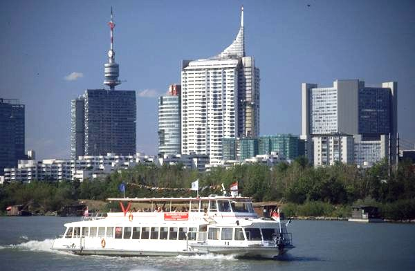 Austria, Vienna, Danube